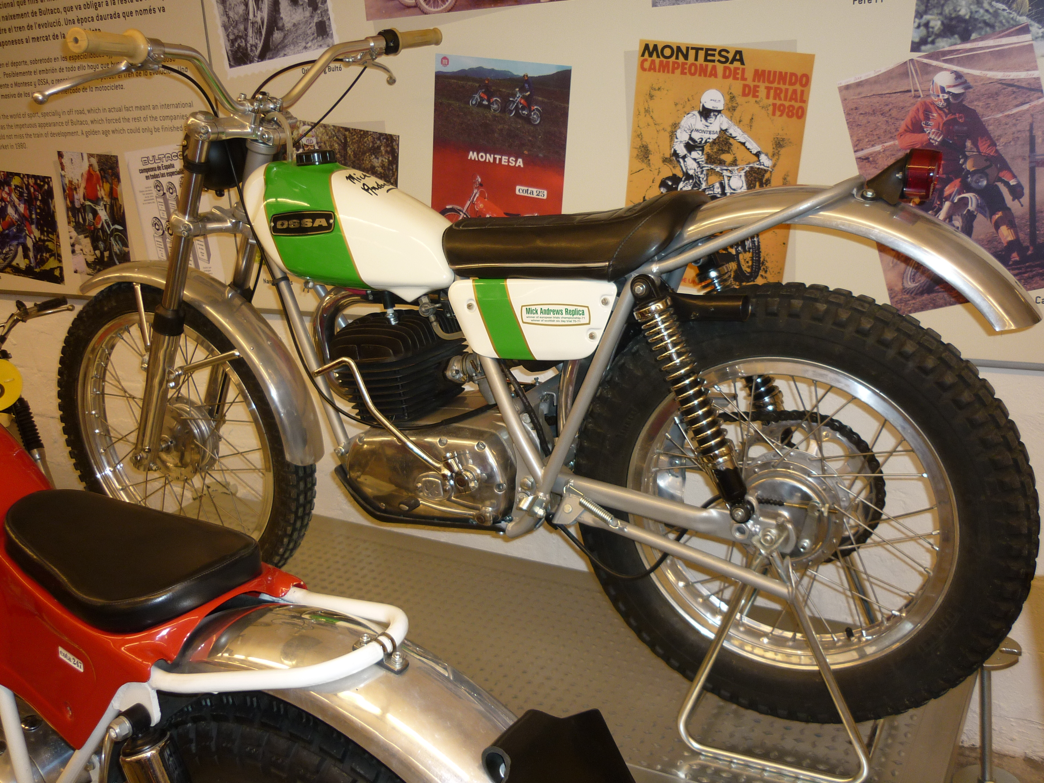 OSSA MAR ("Mick Andrews Replica") 250cc, 1972.Museu de la Moto de Barcelona (Catalonia).